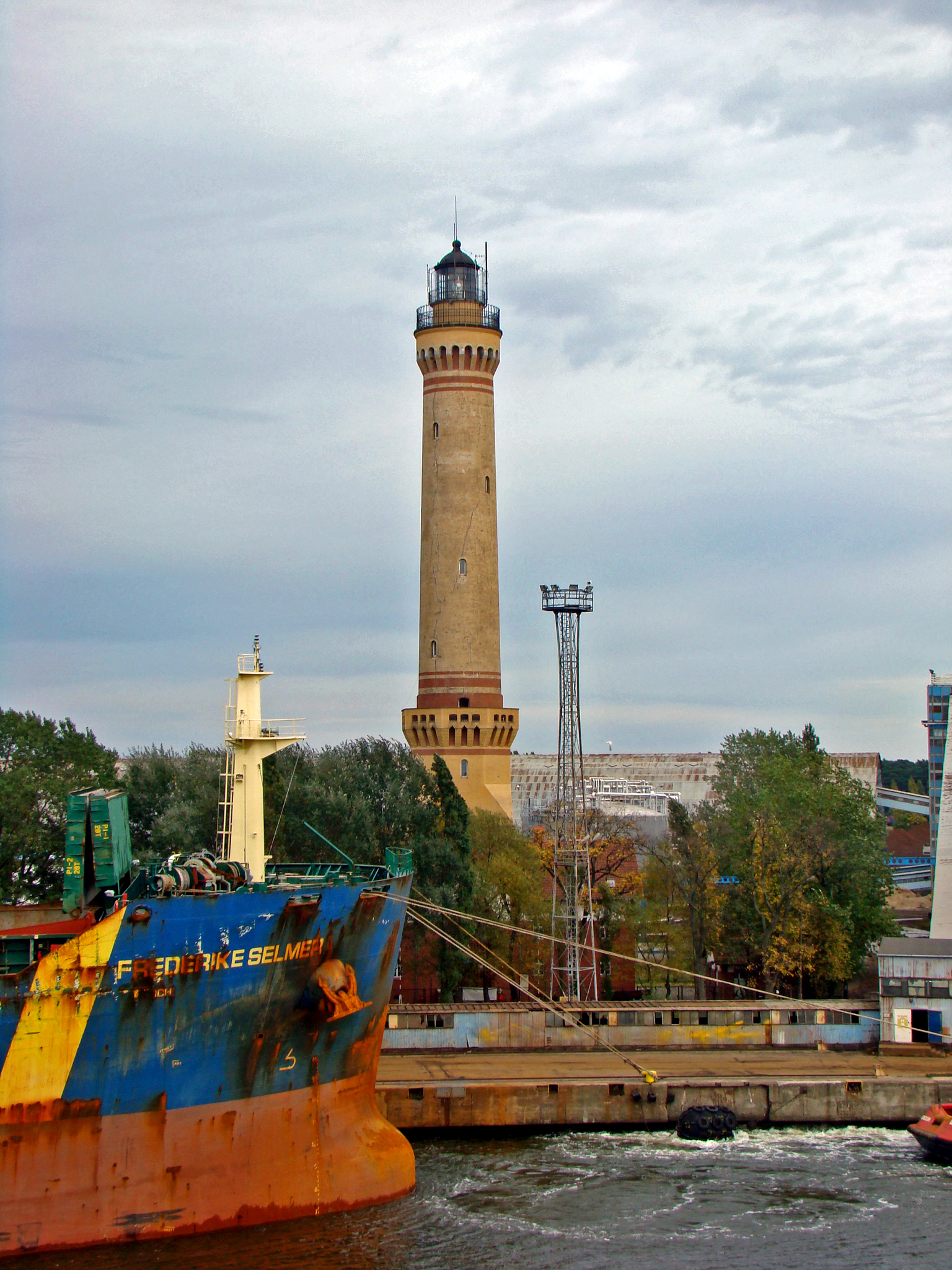 Swinoujscie Lighthouse, Poland